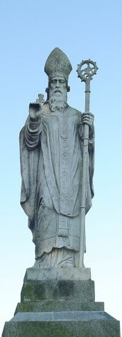 Statue of St. Patrick at Hill of Tara, Ireland.